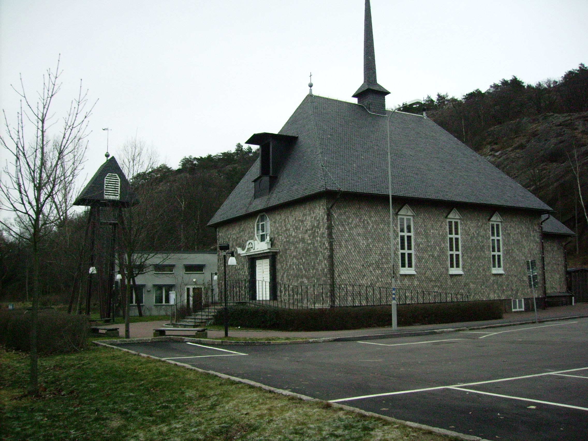 Nylöse church in Gothenburg